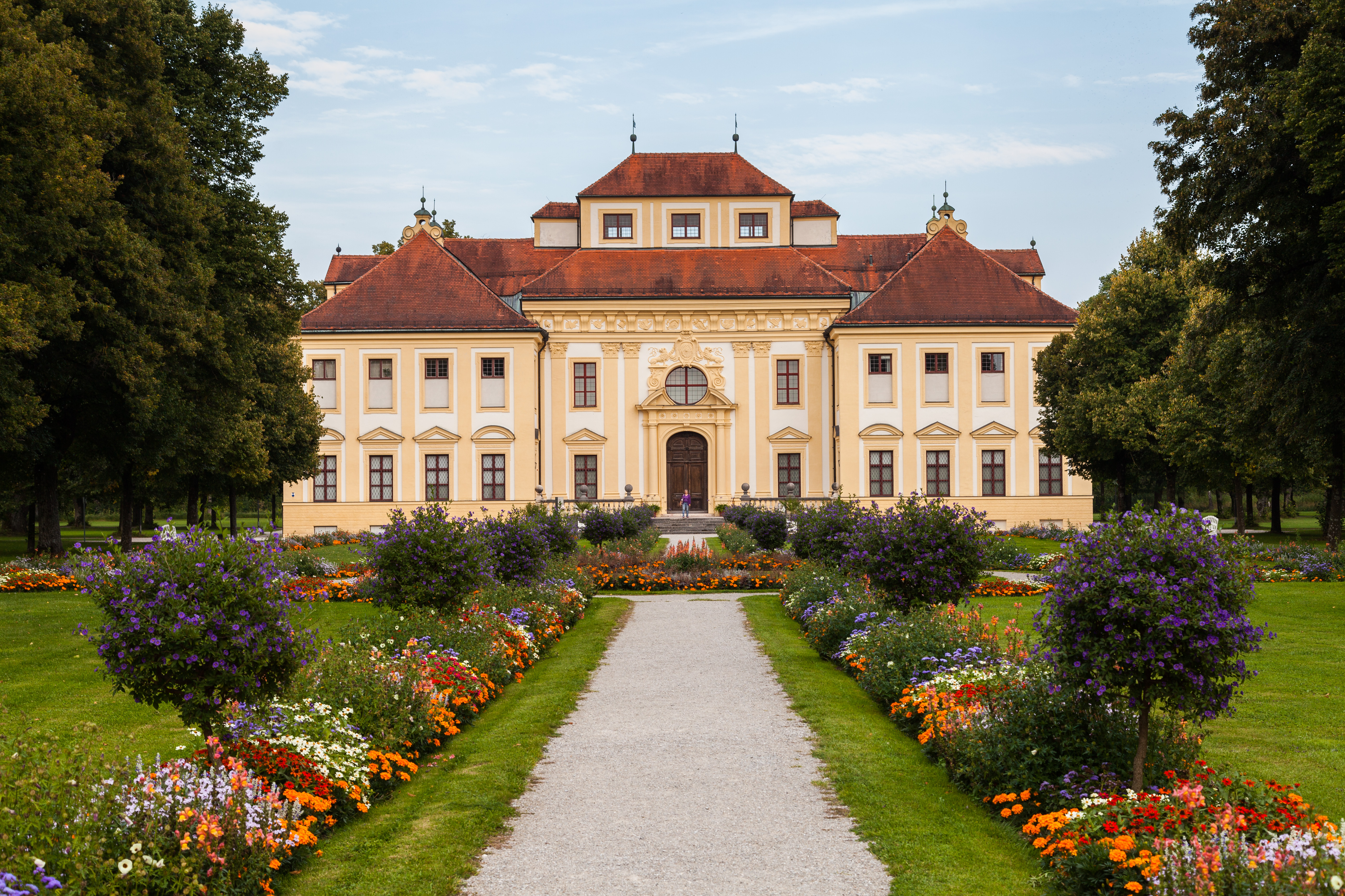 New Schleissheim Palace, Oberschleissheim, Germany This is a photograph of an architectural monument.